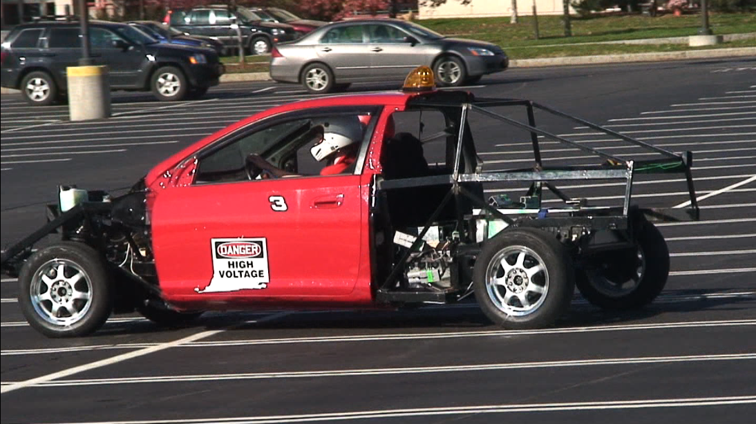 An all-electric test drive of the Redshift, the Cornell 100+ MPG Team's race vehicle.